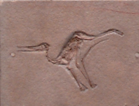 Fossil specimen of Pterodactylus micronyx from the Solnhofen Limestones of Germany. Carnegie Museum of Natural History #CM11426.